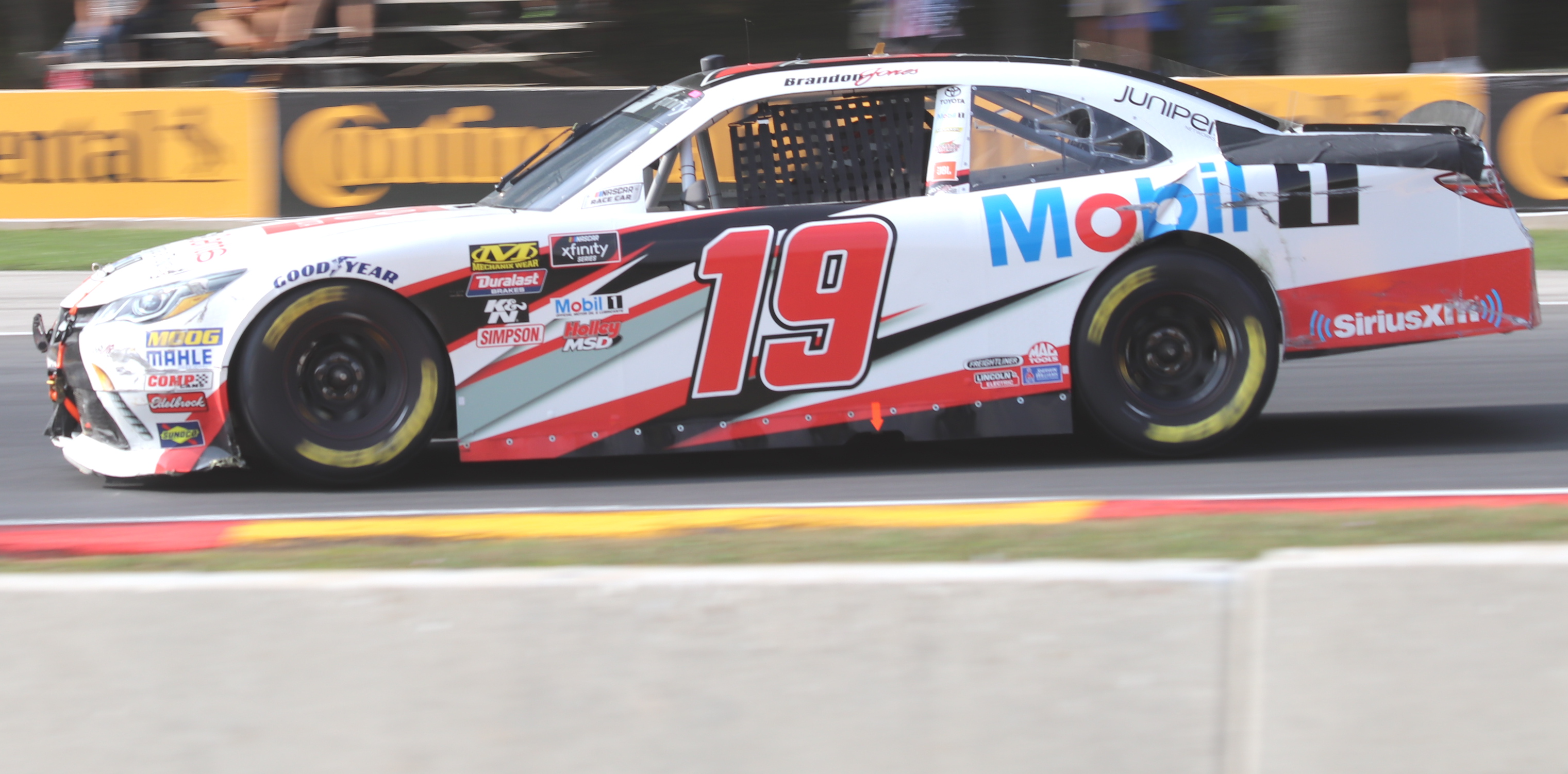 The NASCAR Xfinity Series Toyota Camry of Brandon Jones racing though turn 6 during the 2018 Johnsonville 180 at Road America.